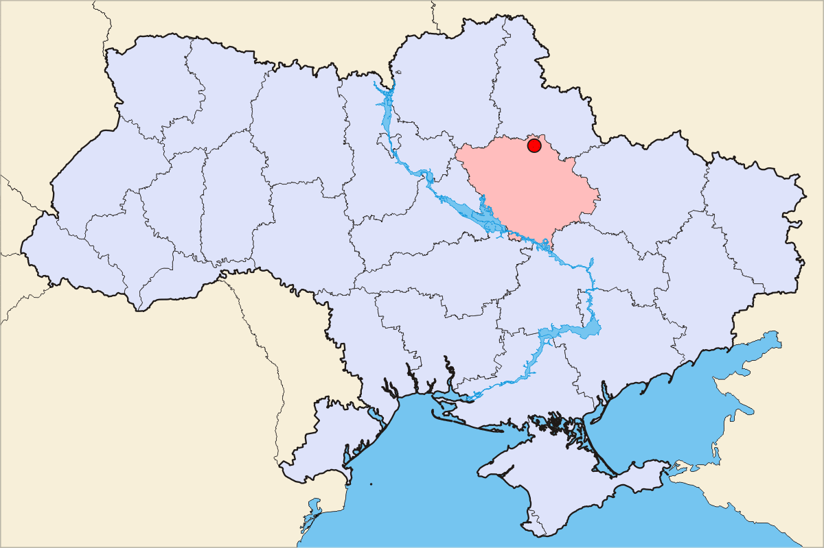 Description = Hadjatsch geographical position Source = own work, Skluesener Date = 21.01.2006 Author = Skluesener Credits = Colours chosen according to a map of steschke